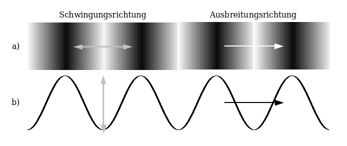 Direction of oscillation and propagation of a longitudinal wave (a) and a transverse wave (labels in German)